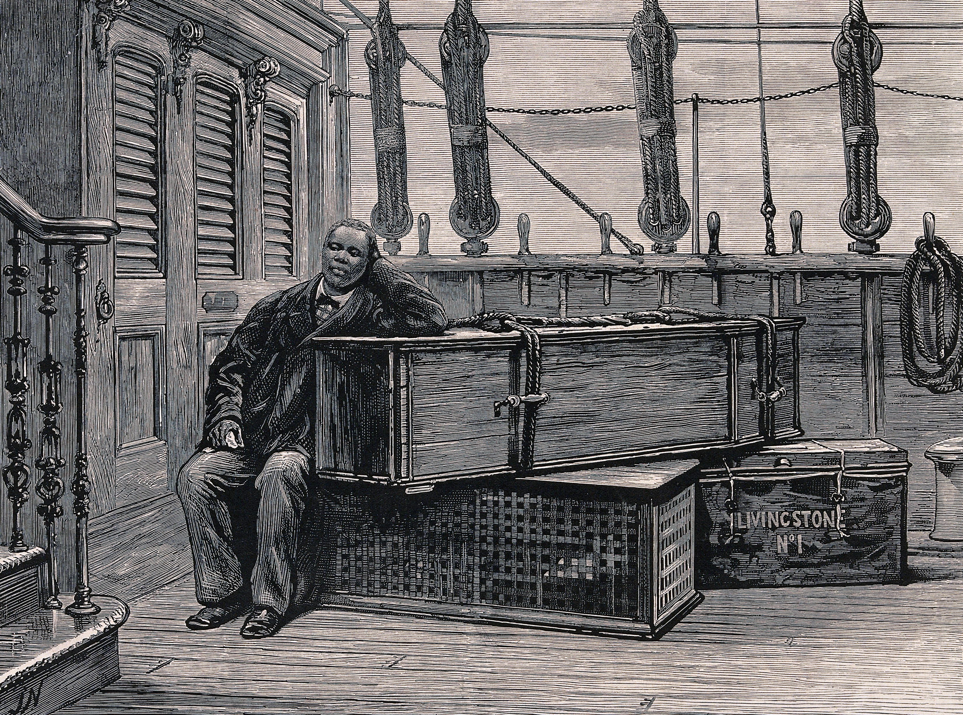 Wood engraving by J. Nash, after a photograph. Printed in Harper's Weekly May 16, 1874. Page 413. Caption: Jacob Wainwright and the body of Dr. Livingstone. - [From a photograph taken at Aden] [1] Available at Wellcome Collection Library